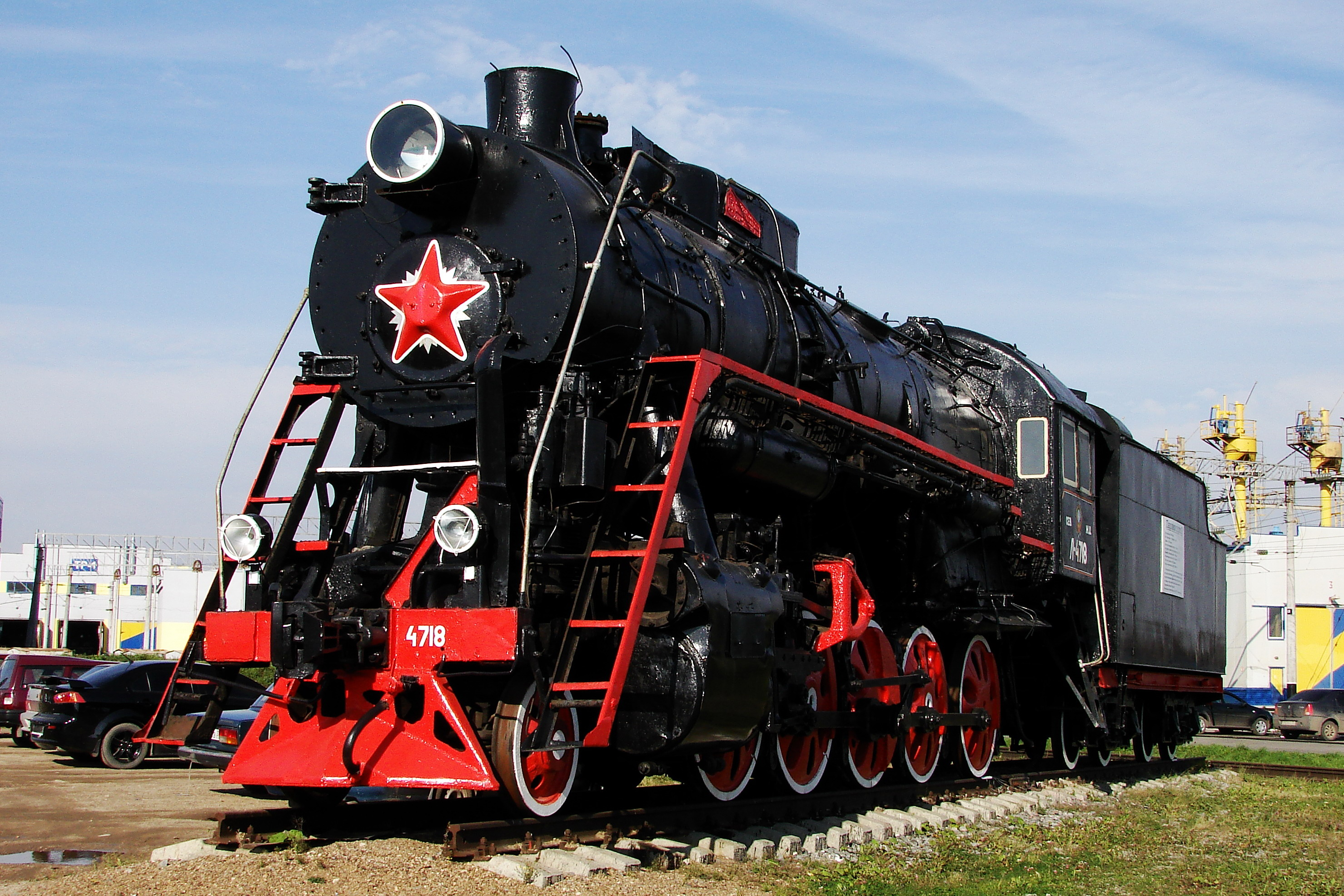 Russia, Vologda, Losta locomotive depot, Locomotive L